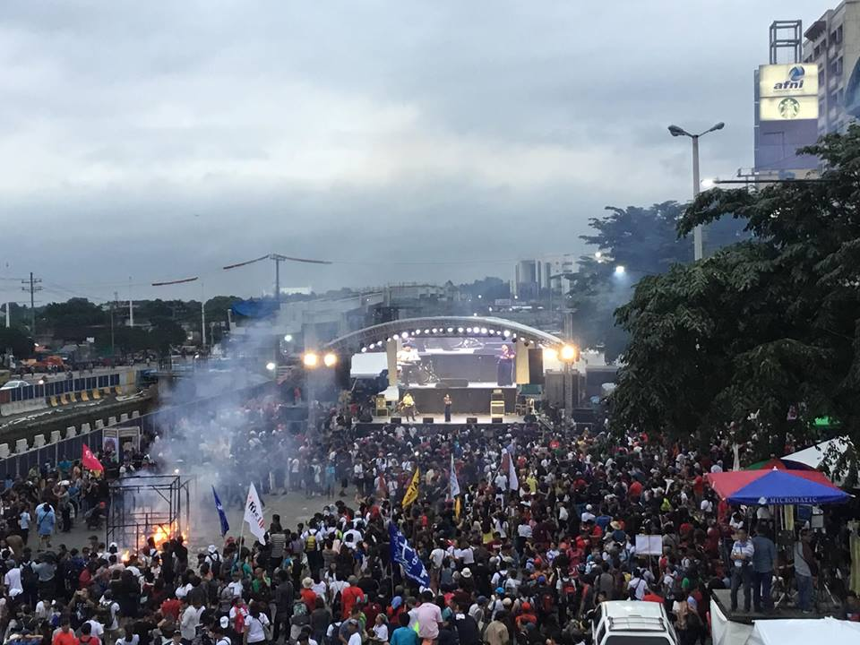 State of the Nation Address mobilization 2018